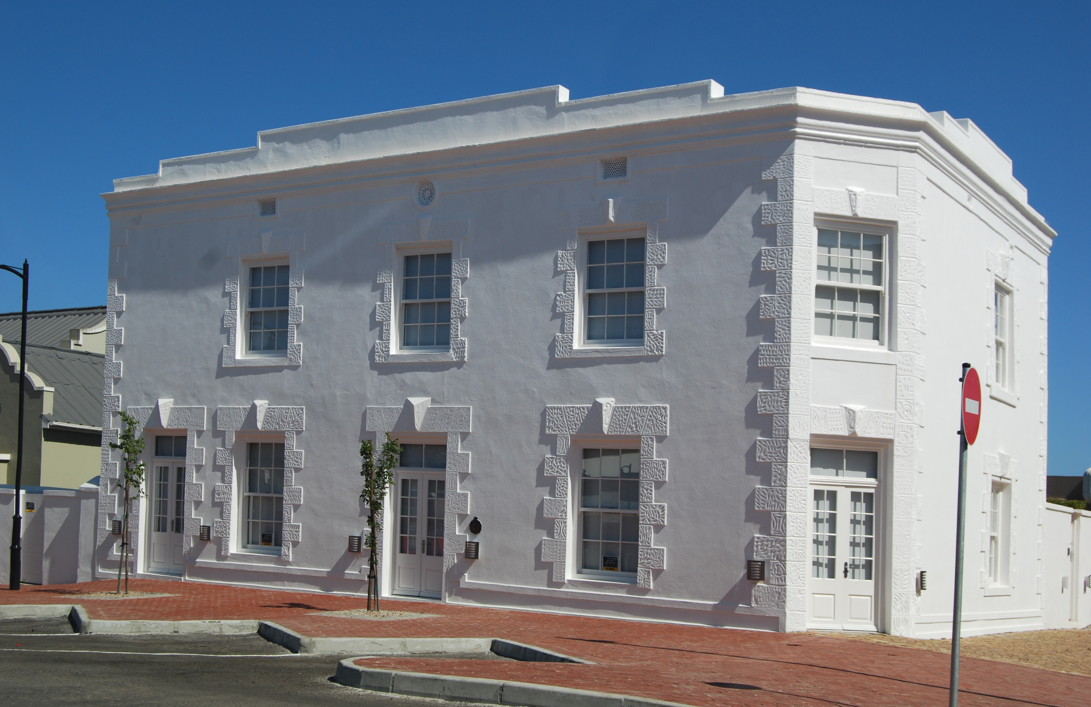 Georgian Cottage in Caledon, Western Cape, at the taxi rank on the corner of Cathkin Street and Donkin Street. Originally a private town house, which then became the first head office of the local farmers co-operative, the C.R.K. Historical Monument. This media shows a South African Protected Site with SAHRA file reference 9/2/015/0004.